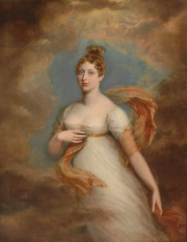 Princess Charlotte of Wales